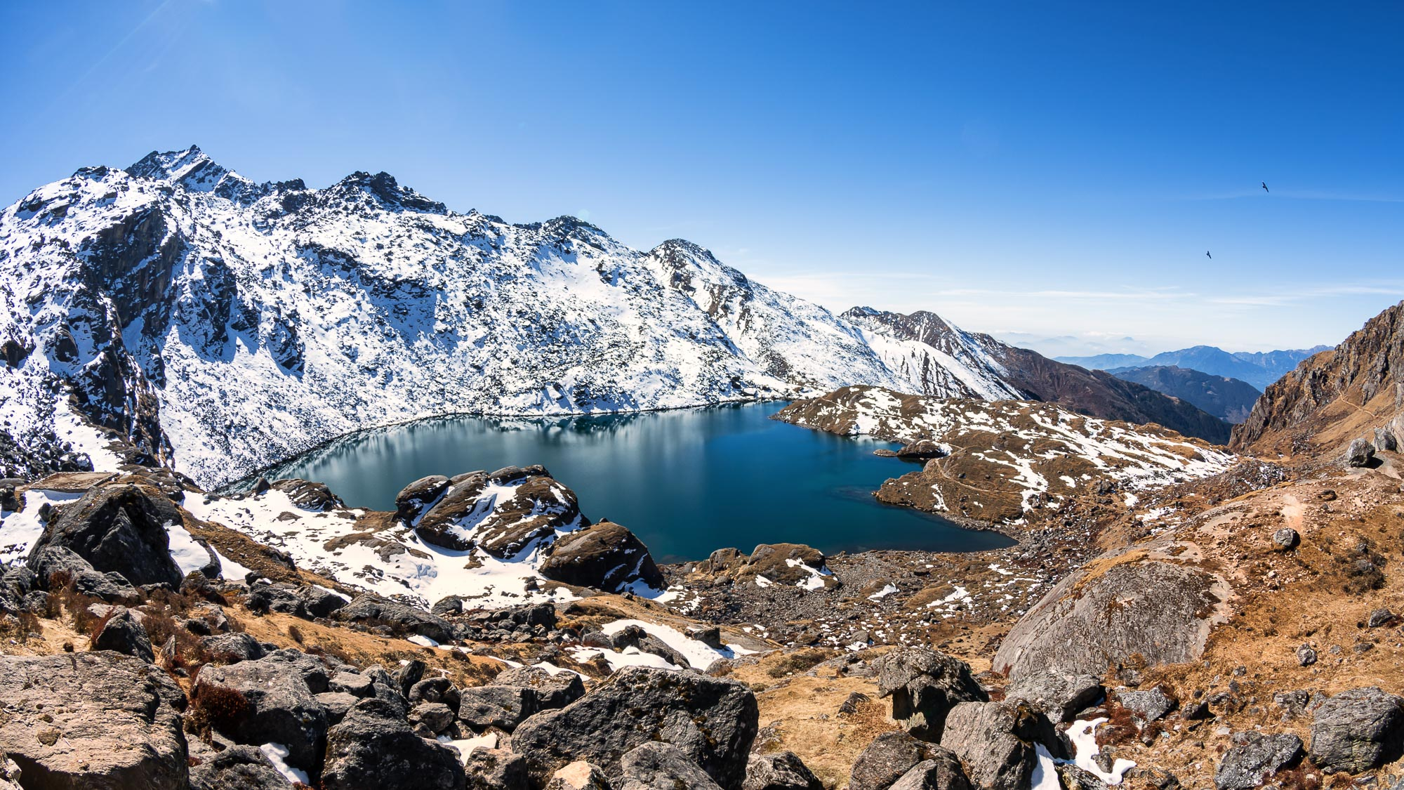 Gosaikunda and Associated Lakes